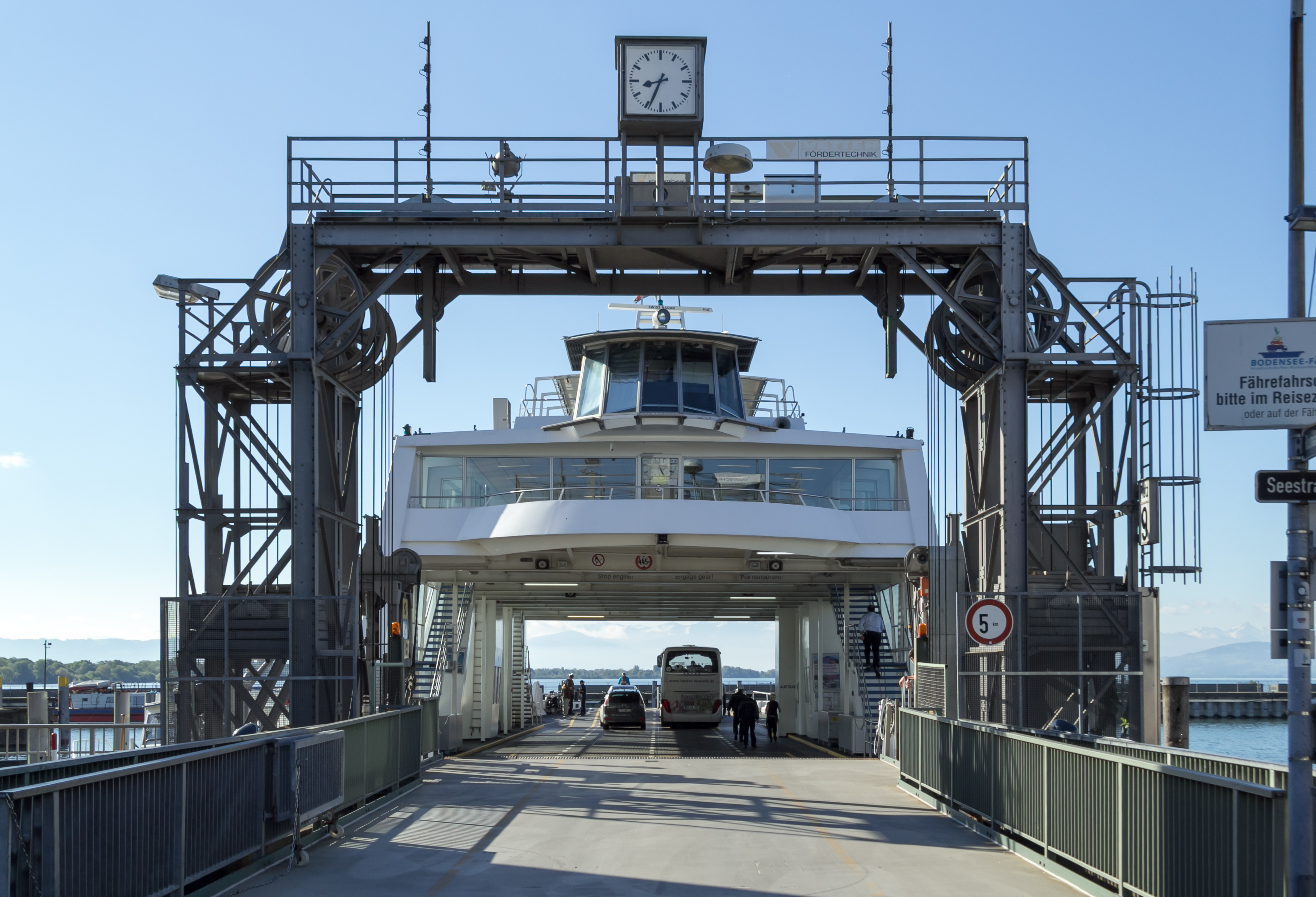 The ferry port of Friedrichshafen. View through the trail bridge to the ferry.